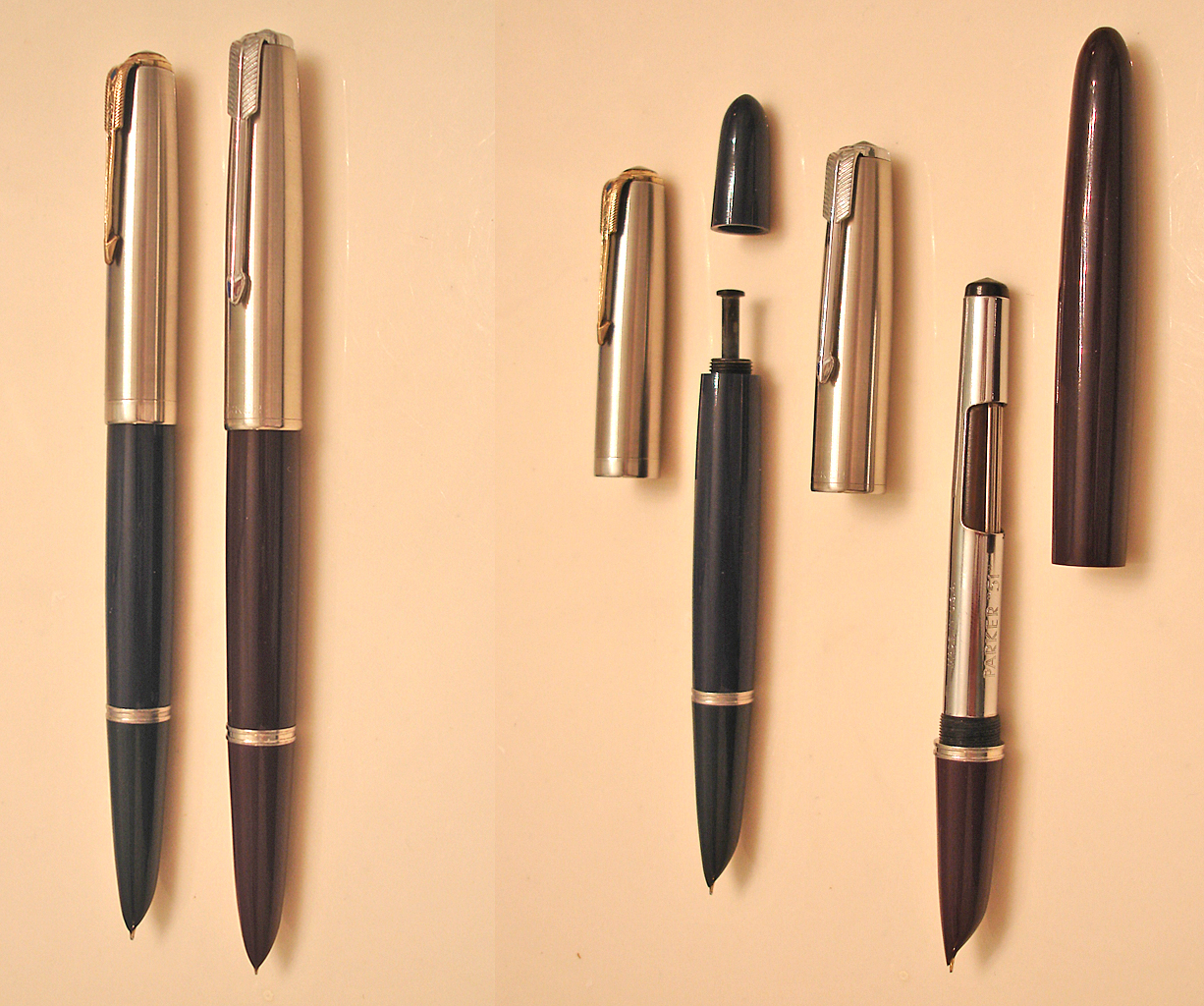 Top photo: 1942 Parker 51 vacumatic in cedar blue (top) and 1949 Parker 51 aerometric in burgundy (bottom) Bottom photo: Parker 51s disassembled to show filling systems